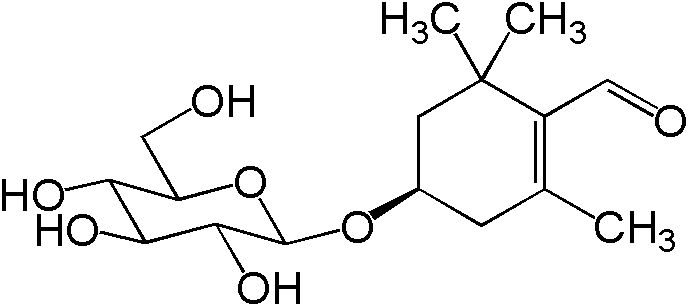 Chemical structure of picrocrocin created with ChemDraw.